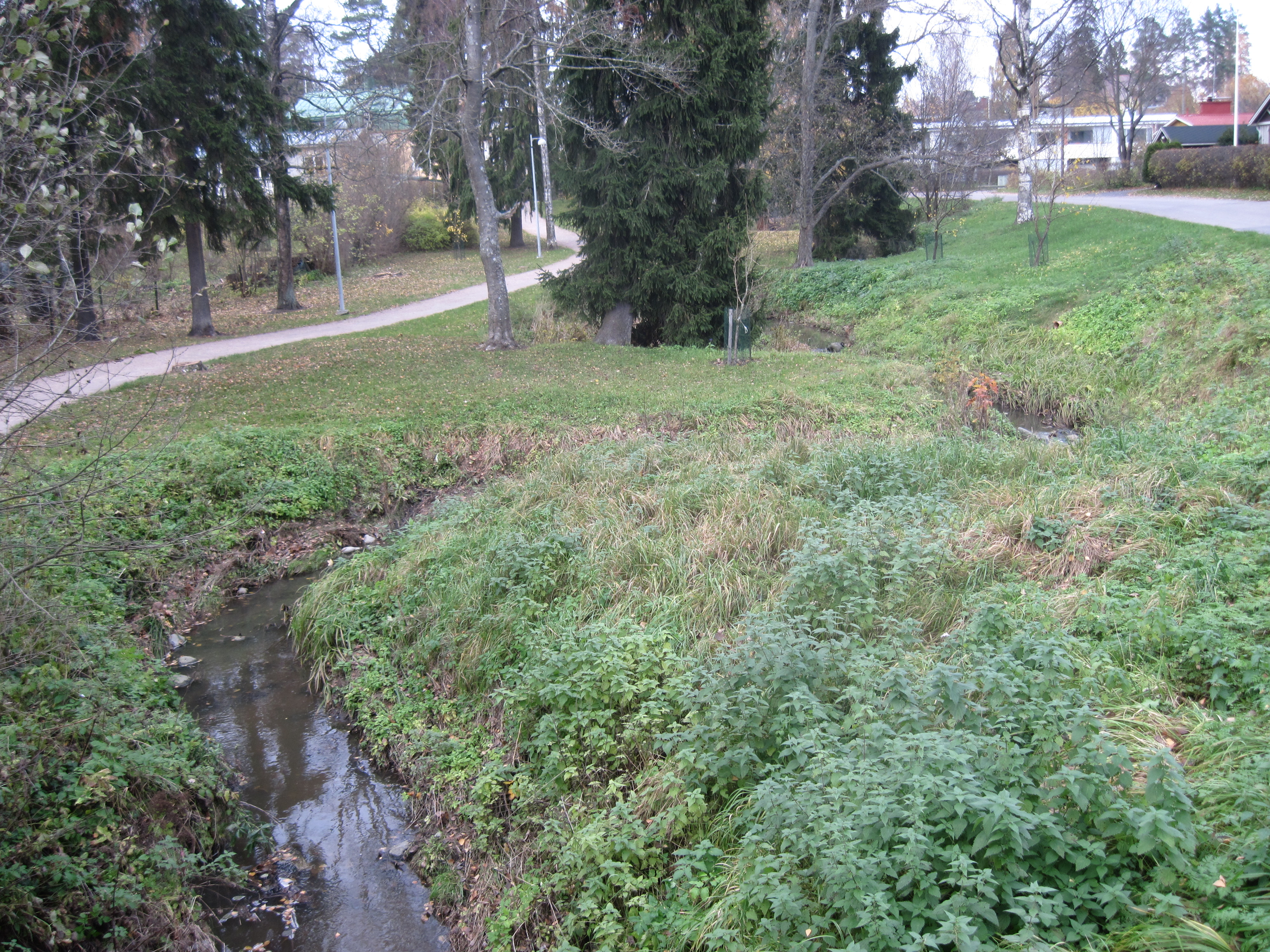 Haaganpuro at Pirkkola, Helsinki